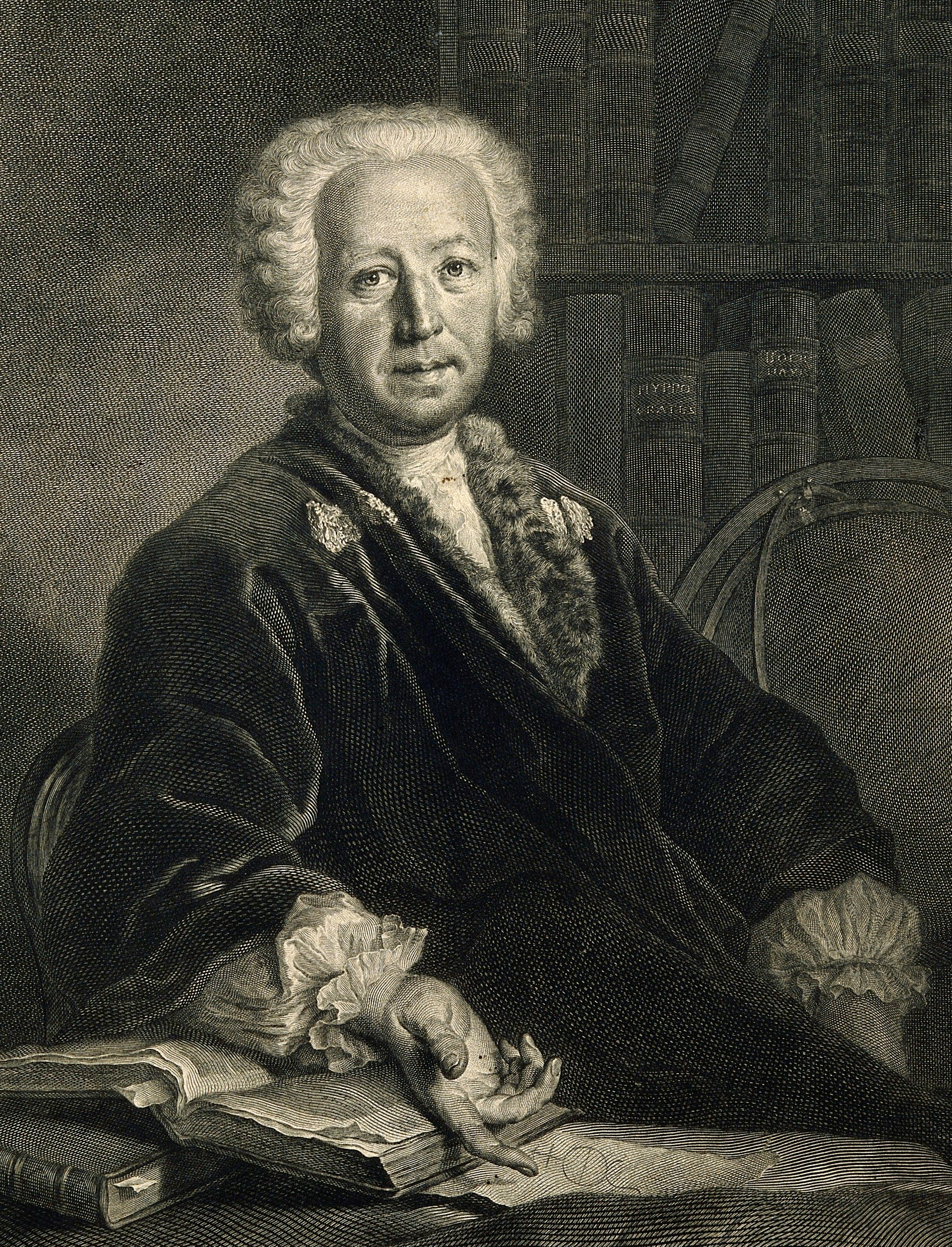 Johann Theodor Eller